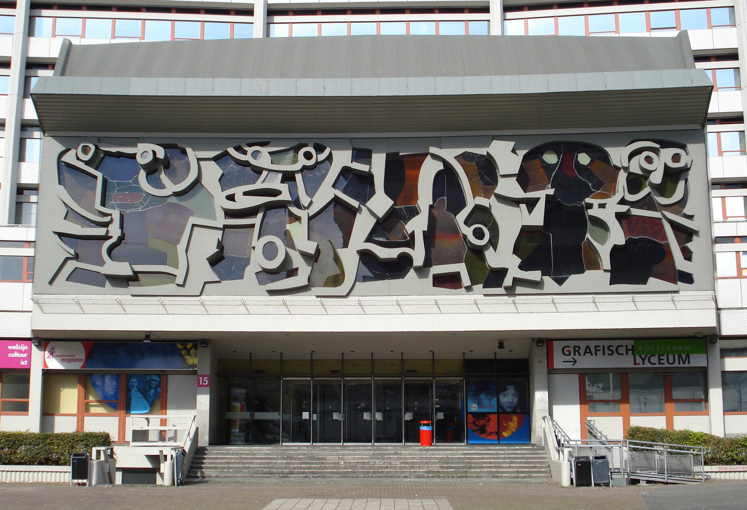 Sculpture (stained glass in concrete) Untitled (1963) by Karel Appel in Rotterdam (Hofplein)/The Netherlands